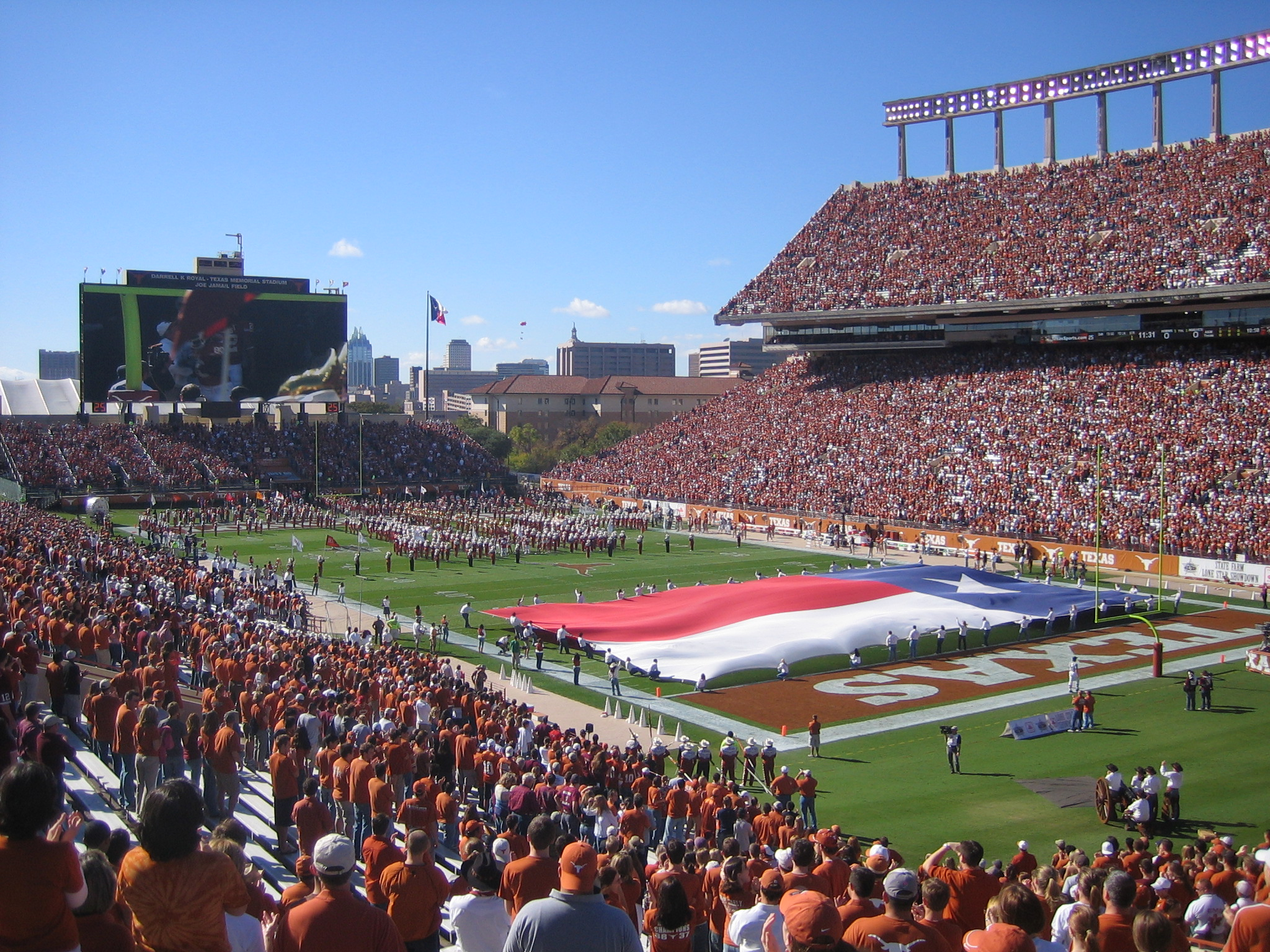 Pre-game festivities at Texas Memorial Stadium before a game between the home Texas Longhorns and the Texas A&M Aggies on November 24, 2006.